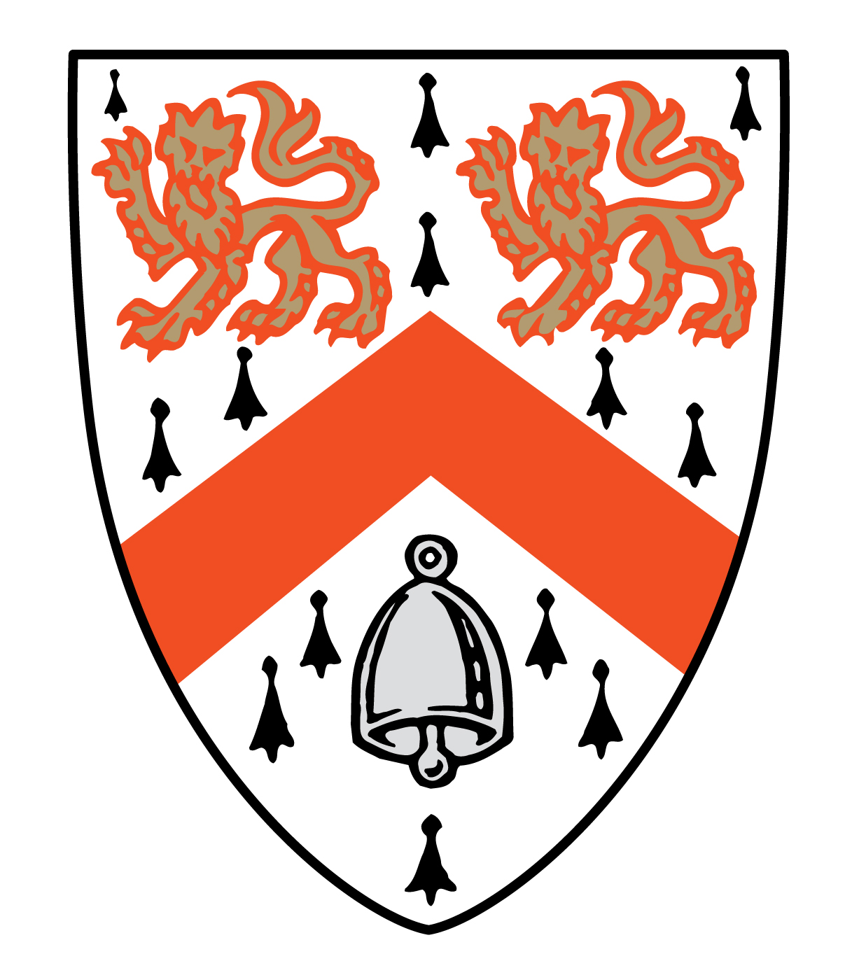 Shield of Wolfson College, Cambridge.